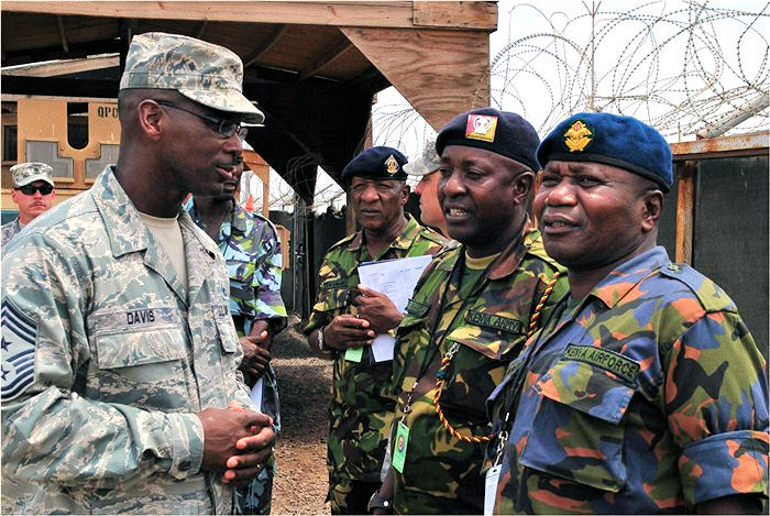 CAMP LEMONNIER, Djibouti (March 27, 2012) - Combined Joint Task Force - Horn of Africa Command Senior Enlisted Leader, U.S. Air Force Chief Master Sgt. James E. Davis, Kenya Air Force Base Sgt. Major Maurice Atsango Matwang'a (right) and Kenya Army Weapons Training Sgt. Major David Karisa Barisa discuss a personnel inspection they just completed here March 27 during a visit with Task Force Raptor soldiers from U.S. Army 3rd Squadron, 124th Cavalry Regiment, Texas Army National Guard. CJTF-HOA hosted the four Kenyan Ministry of Defense senior enlisted leaders to exchange best practices and enhance understanding of the enlisted leadership roles and responsibilities that affect mission execution.